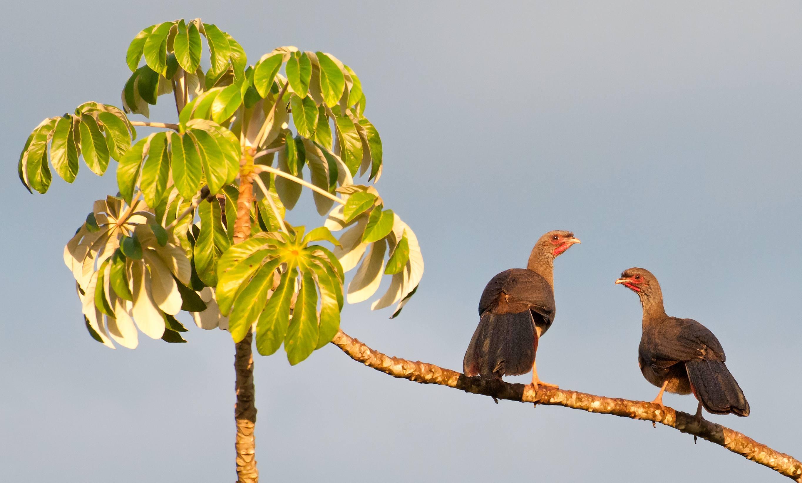 Two Chaco Chachalacas in Bonito, Mato Grosso do Sul, Brazil.